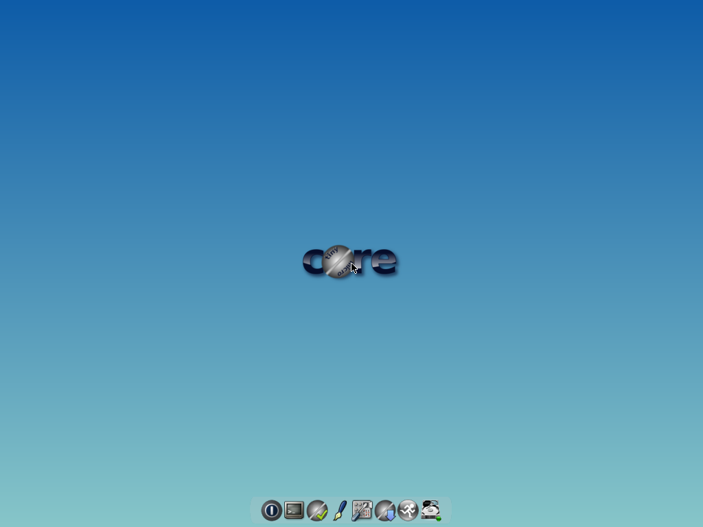 TIny Core Linux 5.0 Desktop